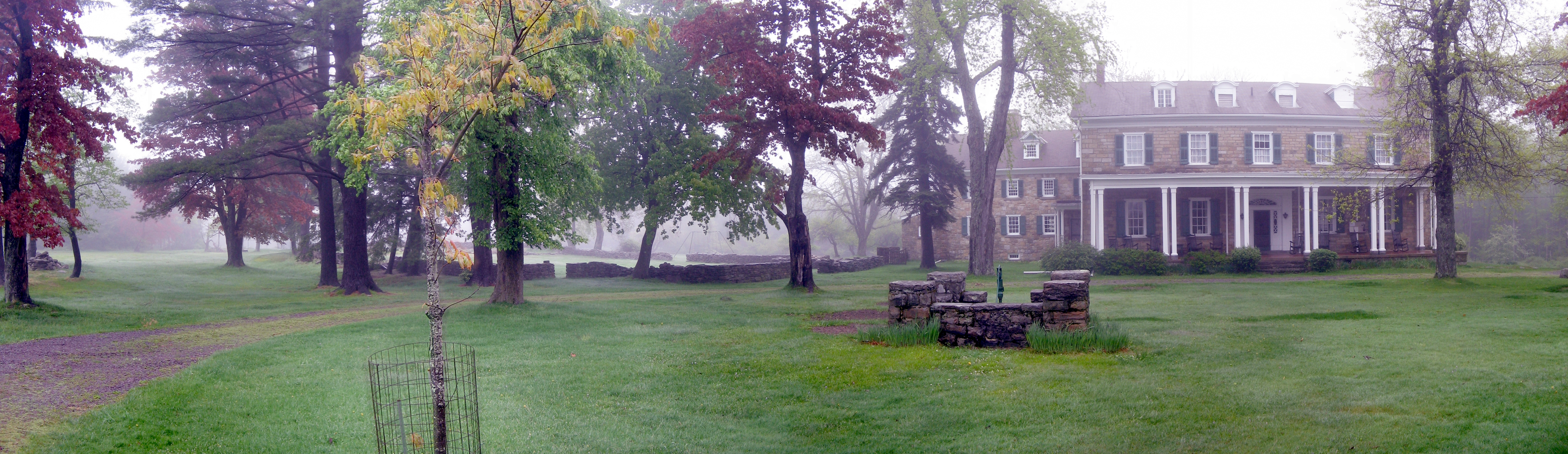 Panormaic view of the west (front) side of the Clemuel Ricketts Mansion, located on Ganoga Lake near Lopez in Colley Township, Sullivan County, Pennsylvania, United States. Built in 1852, the Georgian mansion was added to the National Register of Historic Places on 9 June 1983. 1913 addition is at left of the main house, with the stone walls of the former formal garden left of that.